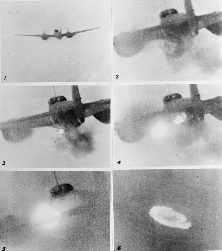 Royal Air Force 1939-1945- Fighter Command The end of this Ju88C of KG 40 was caught on the gun camera of Flight Lieutenant Joseph Singleton's Mosquito II on 11 June 1943. Singleton was leading five Mosquitos of No 25 Squadron over the Bay of Biscay when they ran into a similar number of Ju 88s. In the ensuing battle, one enemy aircraft was destroyed and two damaged.